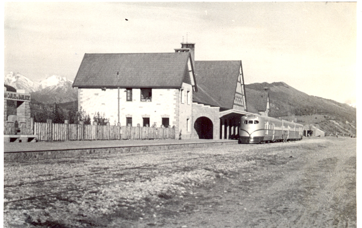 Ganz Works railcars stopped at Bariloche train station.